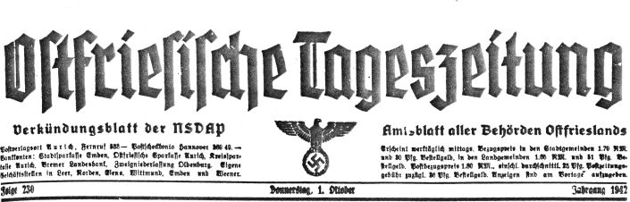 Issue No 230 of the “Ostfriesische Tageszeitung” (“Ostfriesische Tageszeitung” – official Nazi-paper), from 1. October 1942.